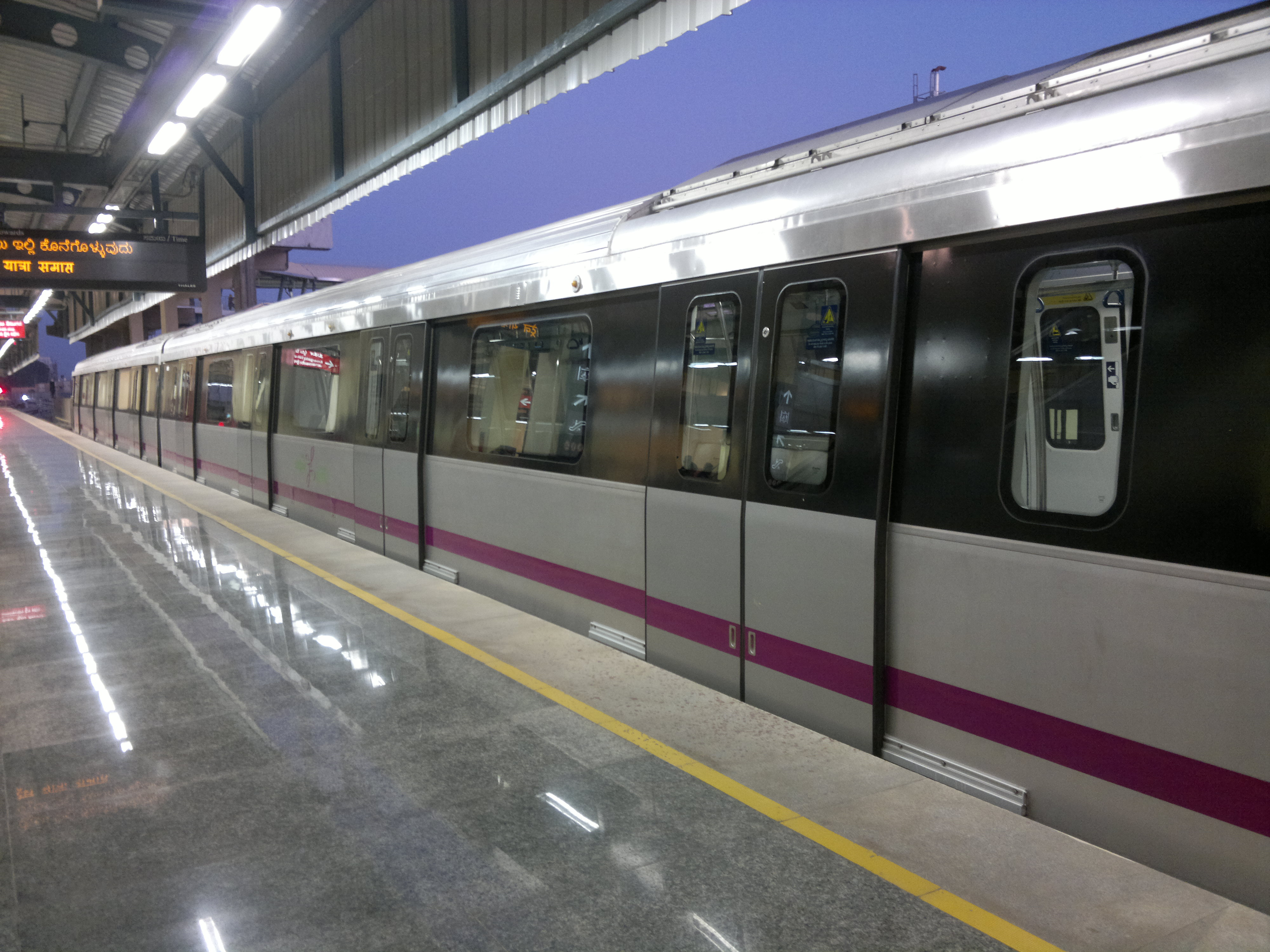 Pic from Namma Metro Baiyappanahalli station (area).